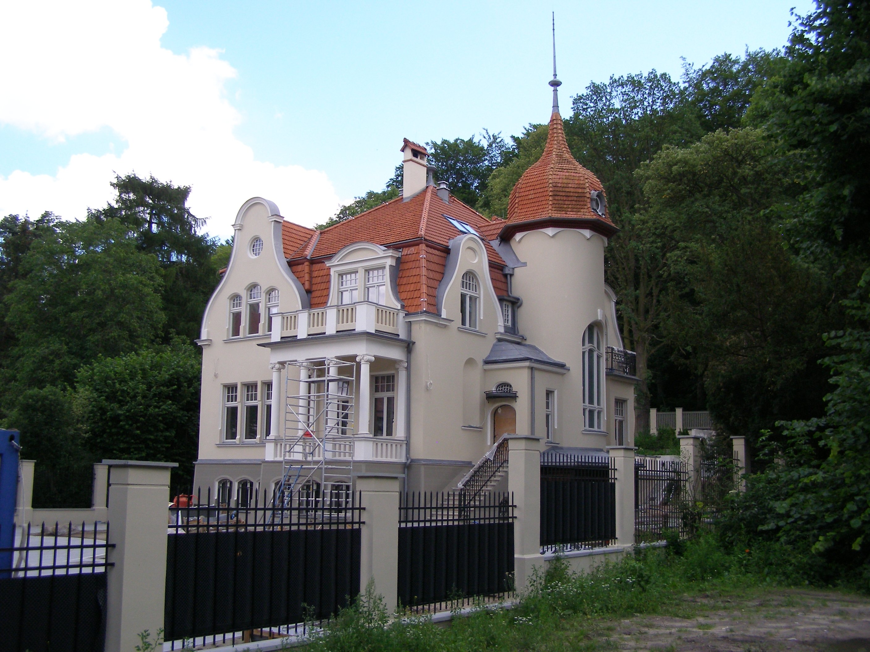 Gdańsk - villa at 44 Jaśkowa Dolina str.